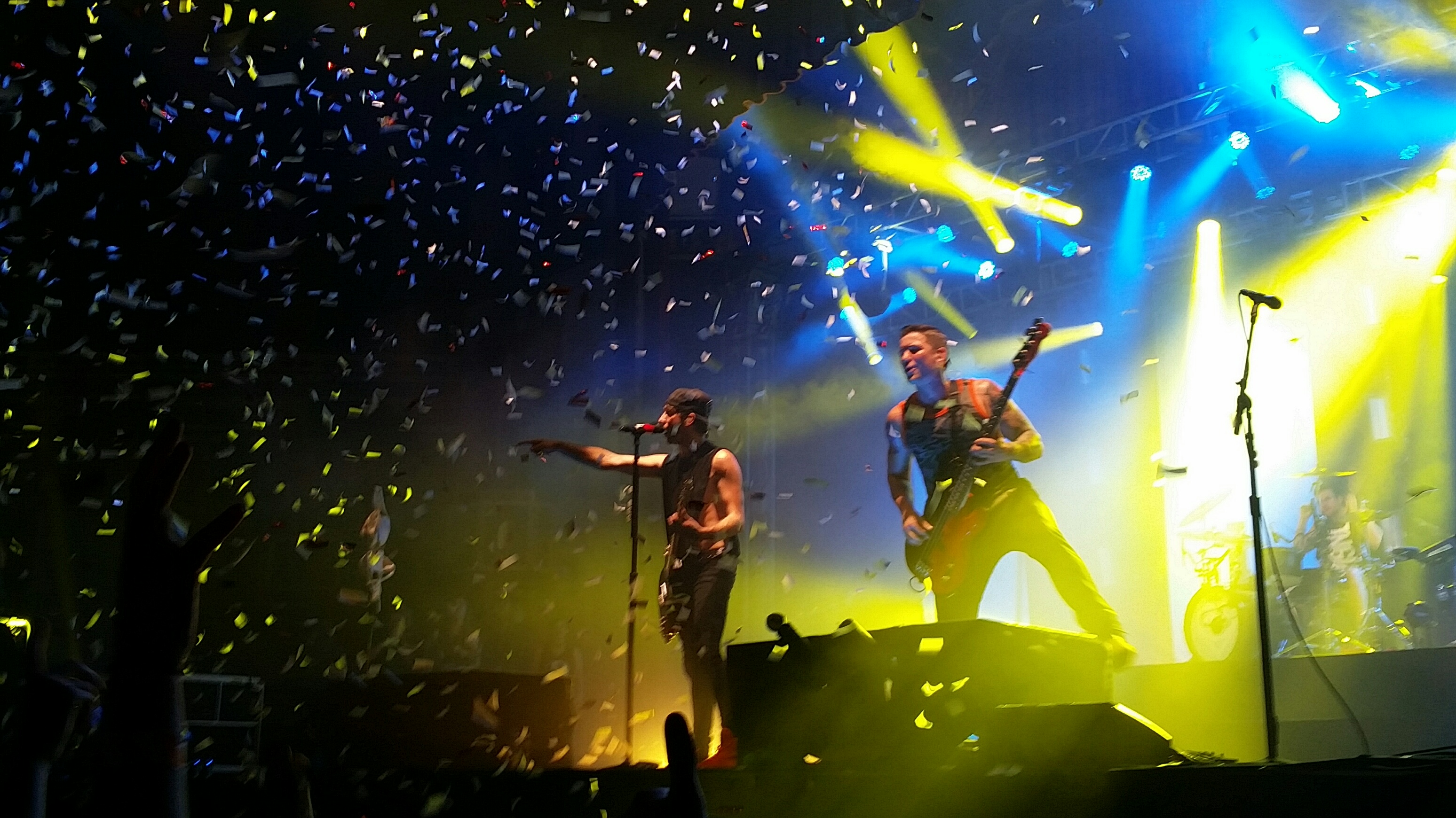 All Time Low performing in 2015 on their Future Hearts tour. Taken at the Aragon Ballroom in Chicago, Illinois.